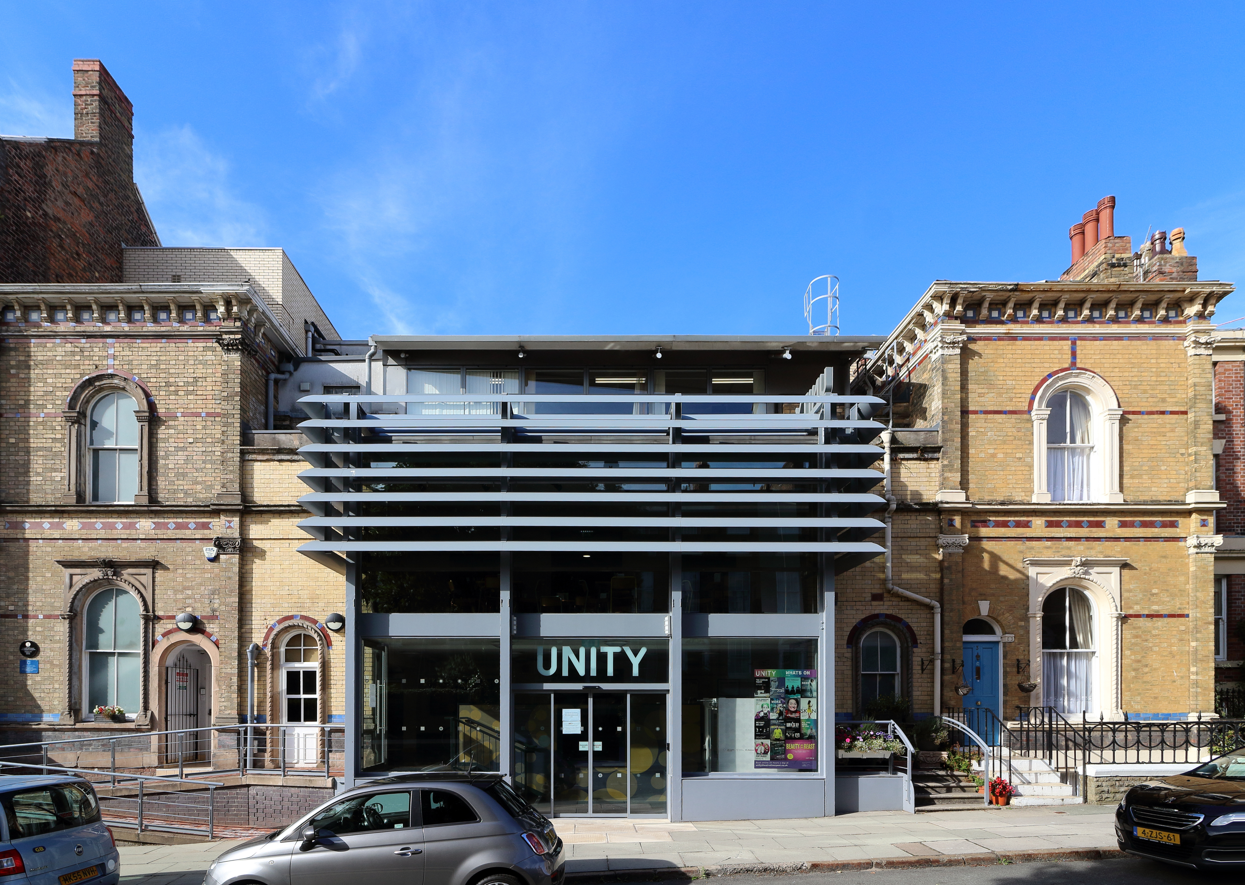 The modern entrance on Hope Place, Liverpool. The former New Hebrew Congregation Synagogue is to the left.